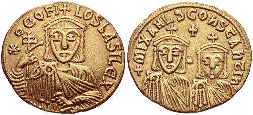 Theophilus. 829-842. AV Solidus (20mm, 4.33 g, 6h). Constantinople mint. Struck 830/1-842. Crowned facing bust, holding patriarchal cross and akakia / Crowned facing busts of Michael II and Constantine; cross above. Füeg 3.A.1.y; DOC 3c; SB 1653. VF.